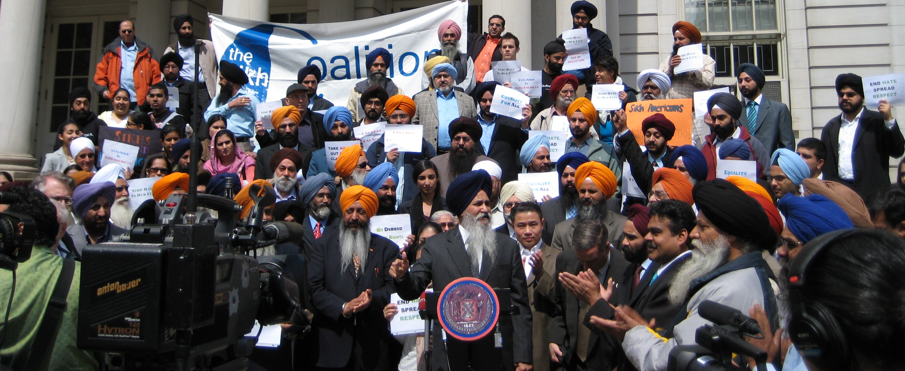 Civil Right Rally